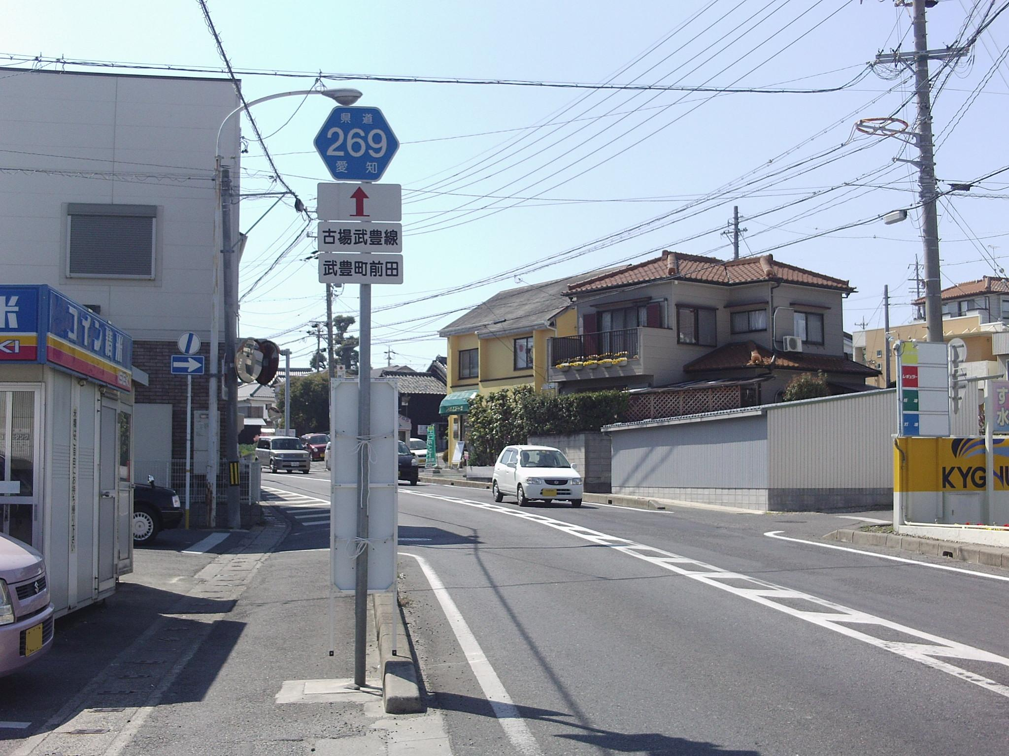 Ending Point of Aichi prefectural road No.269 in Maeda, Taketoyo-cho, Chita-gun, Aichi.